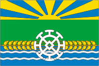 Flag of Privolnoe rural settlement, Krasnodar Territory, Russia